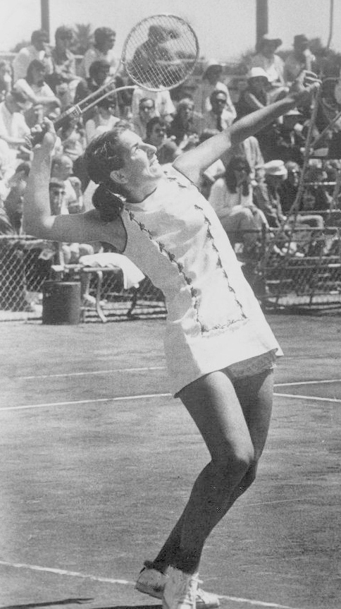 LG46 1972 Original Photo JULIE HELDMAN Womens Tennis Pro Champion Athlete Smash